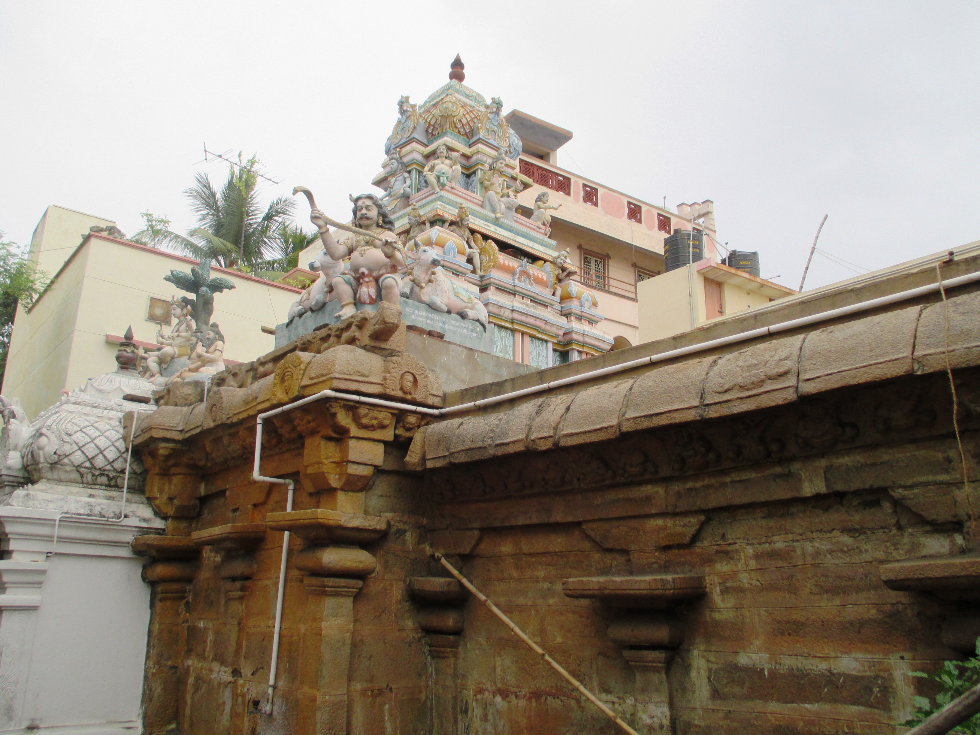 Thanthodreeswarar Temple, Woraiyur